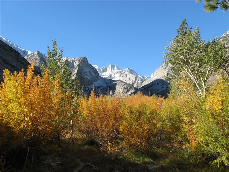 Norman Clyde Peak's northeast face, seen from Big Pine Creek near Glacier Lodge, where Clyde worked as a caretaker for many years. The peak that bears his name also became home to his ashes... biggest gravestone ever! The autumn colors were in a full blaze this weekend.